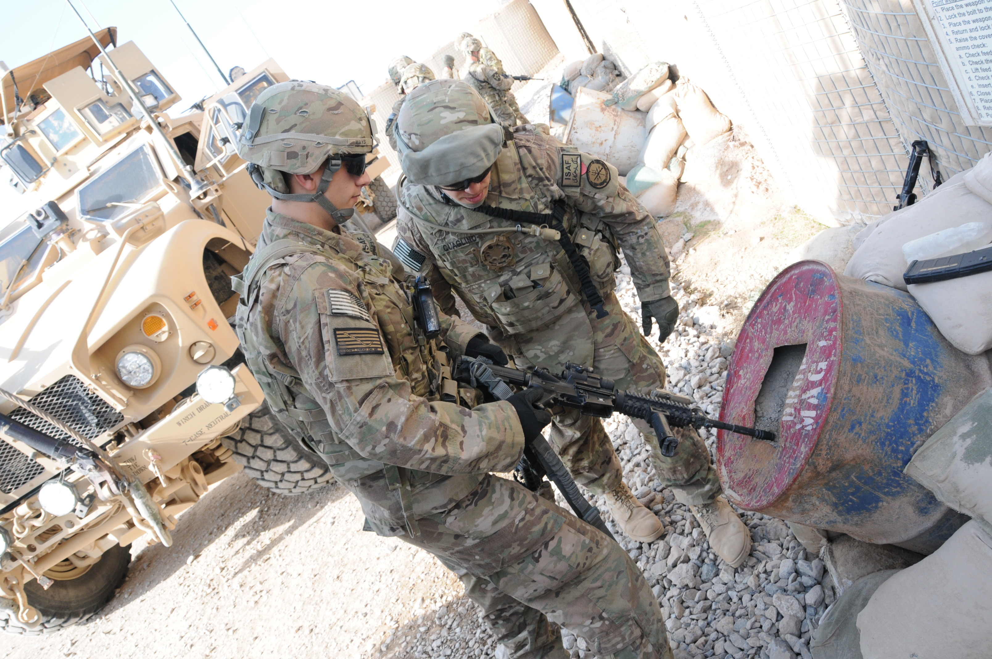 FARAH CITY, Afghanistan (Jan. 8, 2013) Lt. Mike Quaglino, operations officer for Provincial Reconstruction Team (PRT) Farah, watches as Hospital Corpsman Brian Mays, a medic for the PRT, clears his M4 carbine upon returning from a mission. The mission to the director of agriculture, irrigation and livestock facilities was to evaluate progress on a demonstration greenhouse project being built to connect Farahi farmers and the government. PRT Farah's mission is to train, advise, and assist Afghan government leaders at the municipal, district, and provincial levels in Farah province Afghanistan. Their civil military team is comprised of members of the U.S. Navy, U.S. Army, the U.S. Department of State and the U.S. Agency for International Development (USAID). (U.S. Navy photo by Lt. j.g. Matthew Stroup/Released) 130108-N-LR347-410 Join the conversation navylive.dodlive.mil